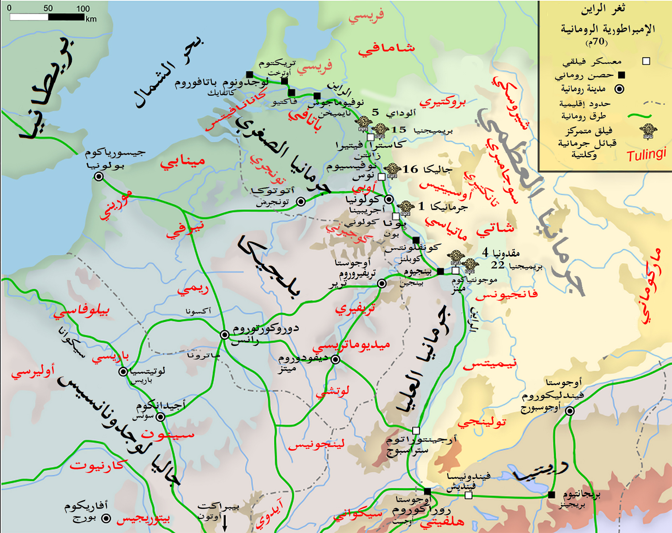 Rhine frontier of the Roman empire, 70AD, showing the location of the Batavi in the Rhine delta region. Roman territory shaded dark